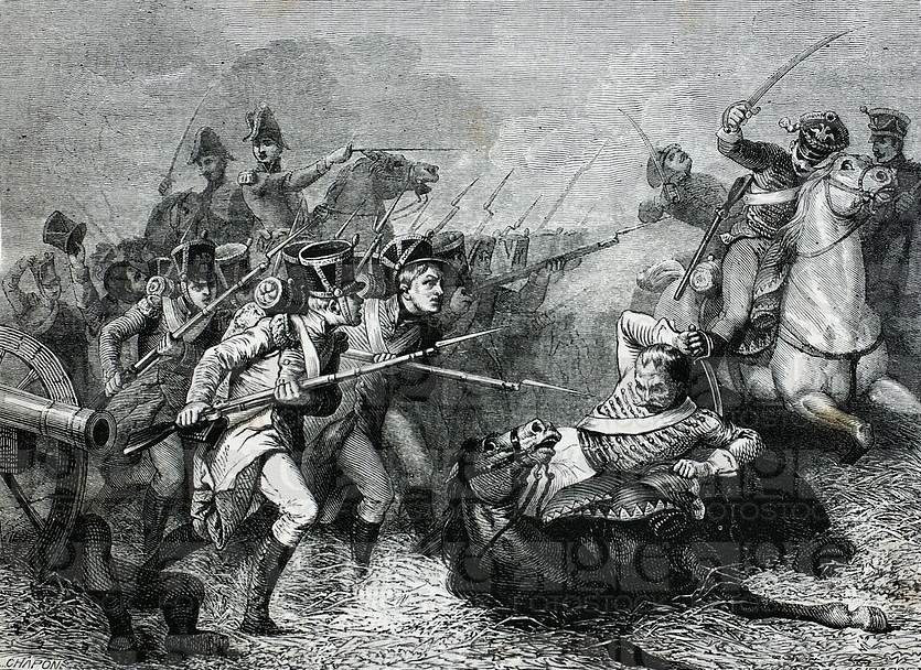 The 1813 conscripts at the battle of Weissenfels. Wanting to impose battle upon Russia's General Wittgenstein, Napoleon Bonaparte sent two reinforced corps to try to force his hand near Lutzen. Under Marshals Bessieres and Ney, the French advanced across horse-friendly terrain and presented a tempting target to General Winzingerode's cavalry. The Russians attacked but the French troops, who included many inexperienced conscripts, did themselves proud as they fought off the cavalry. Bessieres was killed when struck in the chest by a cannonball.